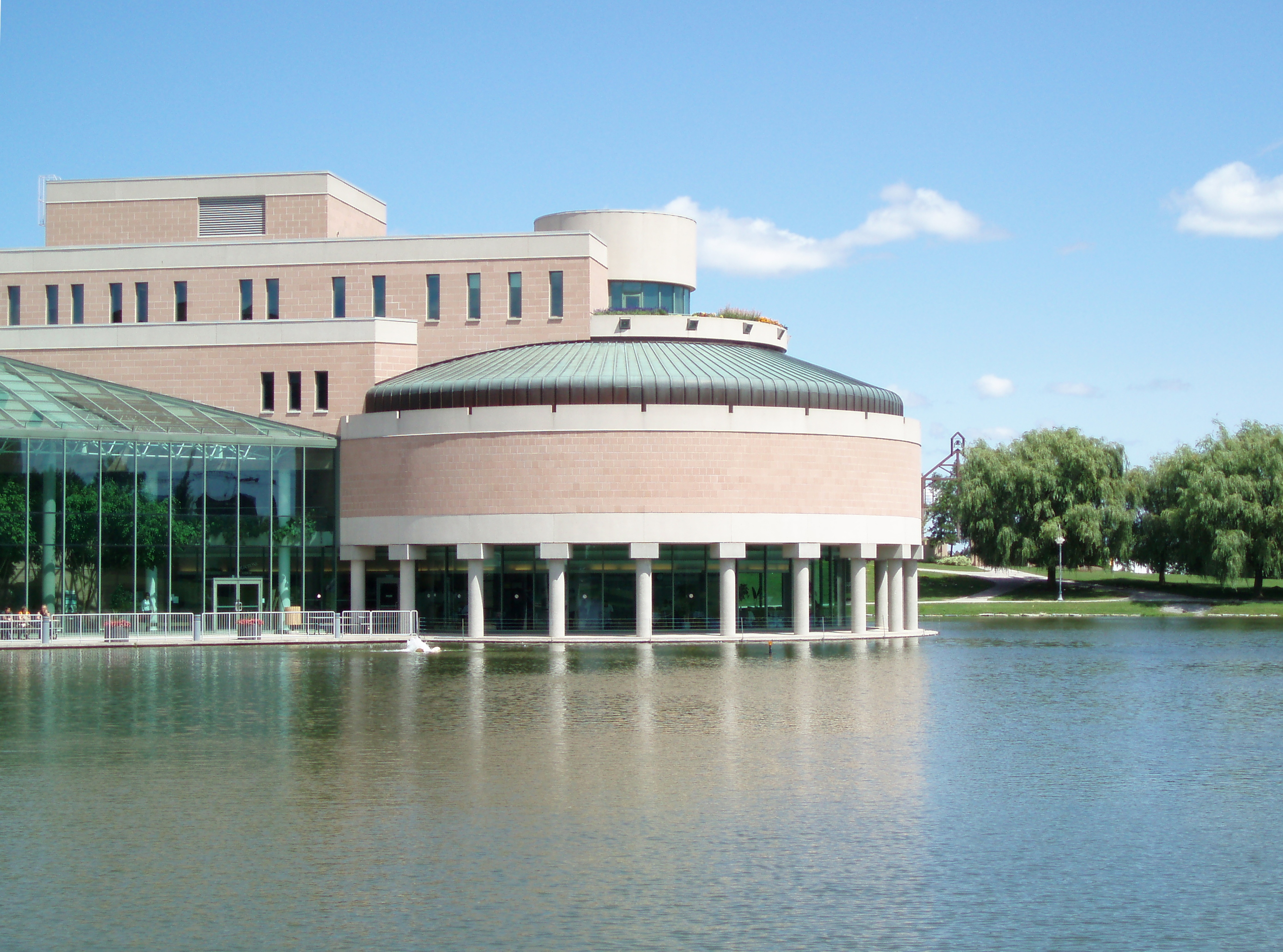 Markham Civic Centre